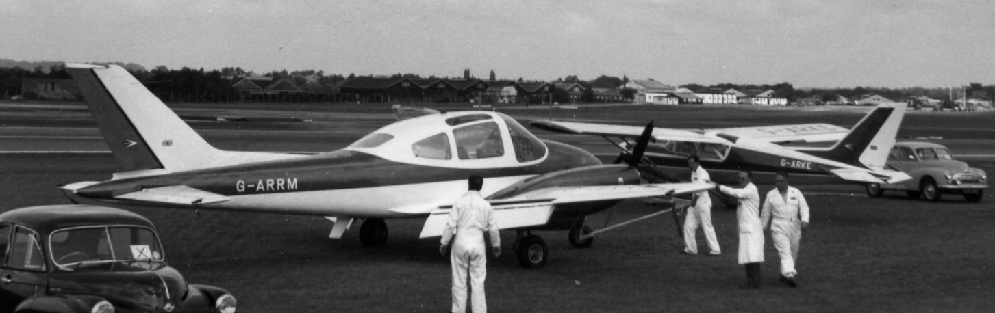 Two Beagles at the SBAC Show at Farnborough on 9 September 1961. In the foreground is G-ARRM, the first prototype B.206 which first flew on 15 August 1961 and had done about 16 hrs flying time. Behind is G-ARKE, the first prototype A.109 (later A.111) Beagle Airedale.